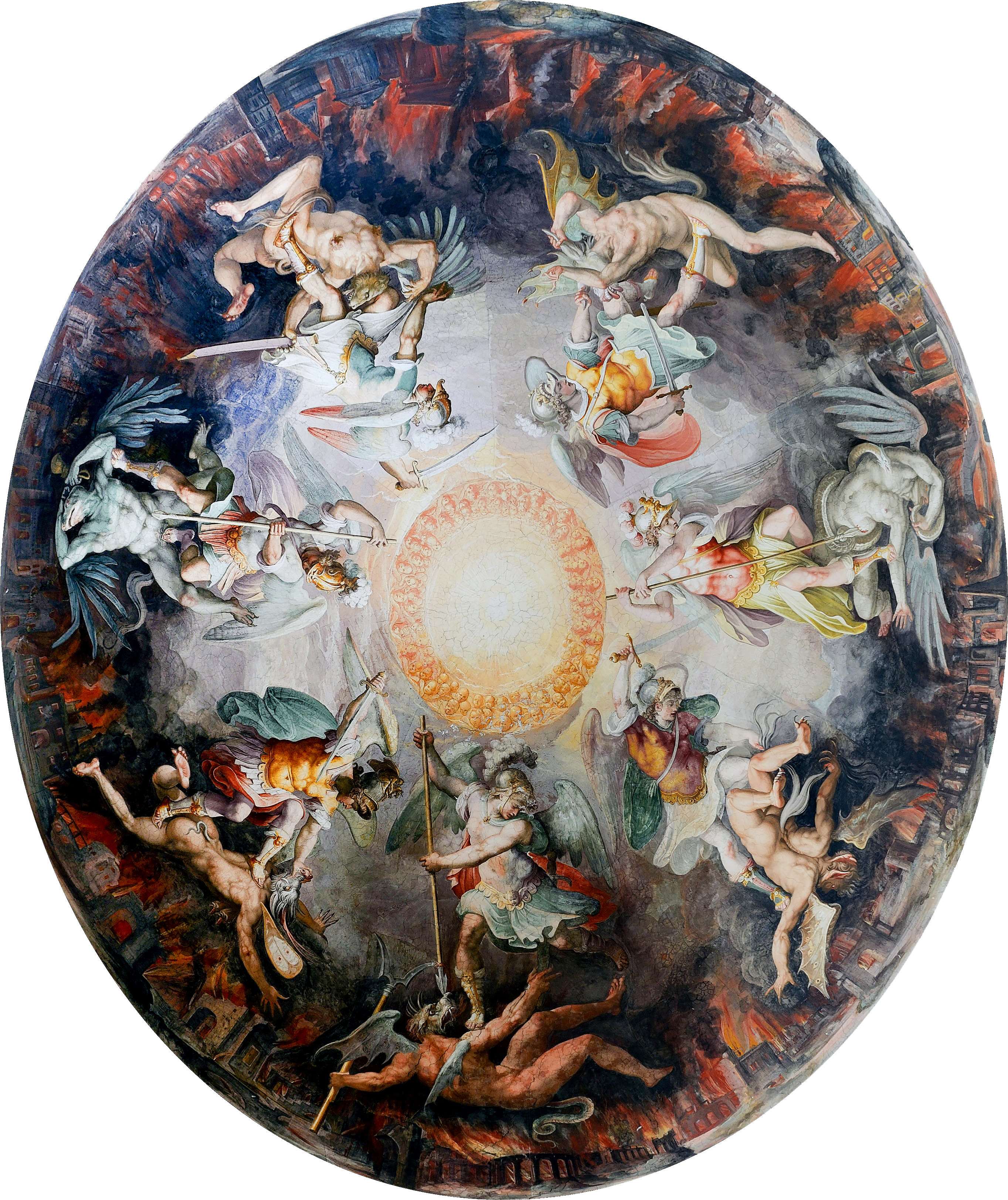 Ceiling Painted Dome Cupola Angels Fighting Demons in Vatican Museums